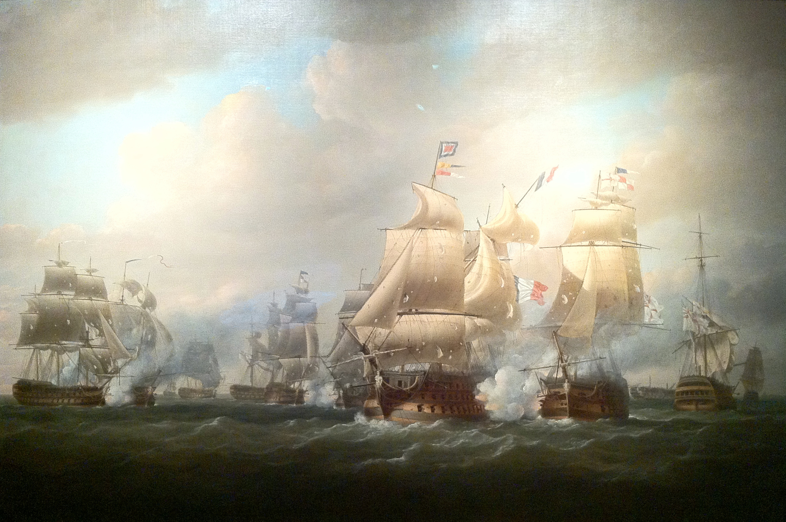 Admiral Sir John Duckworth was watering and refitting his squadron off the Caribbean island of St Kitt's when he learnt that a large French force was intending to attack the economically important British colony of Jamaica. In a successful action on 6 February 1806, he managed to run two of the French ships ashore and capture the remaining three. Duckworth's action secured the way for the capture of Curacao, Martinique, Cayenne, and Guadeloupe.